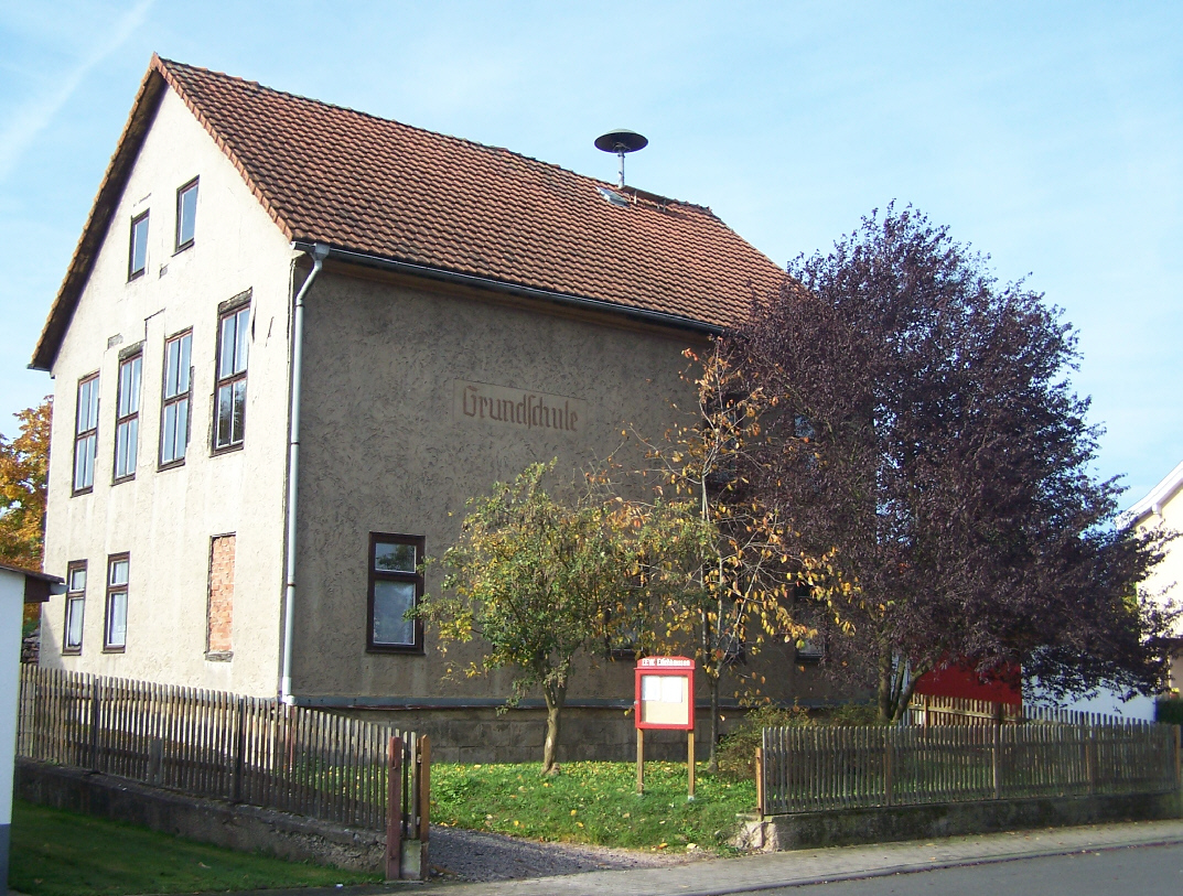 The old schoolhouse in Ettenhausen/Suhl.